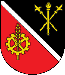 Coat of arms of Courchapoix, Canton of Jura, Switzerland (Source: Symbol on the wall of the municipal administration)